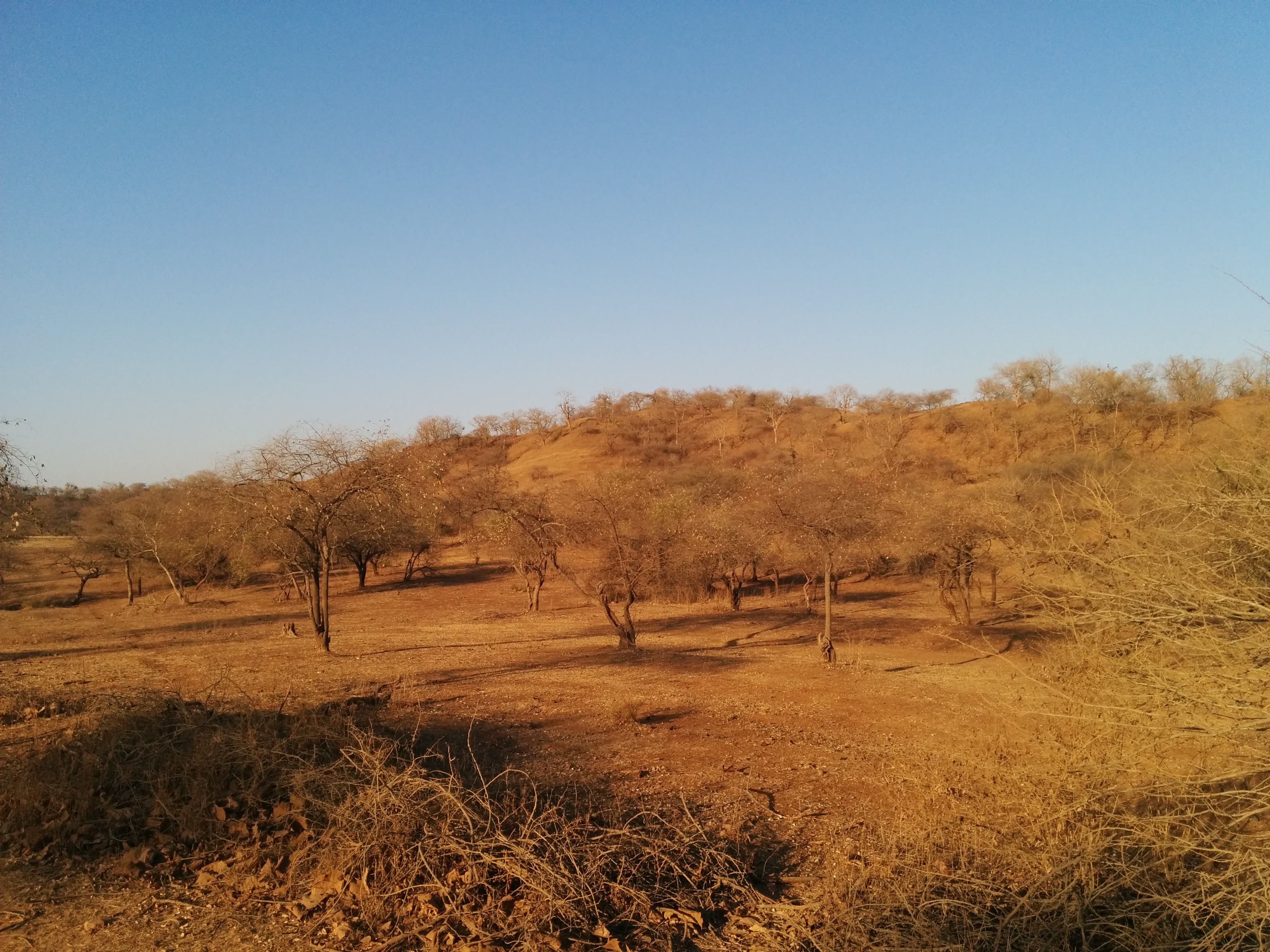 The dusty brown terrain of the Gir forest